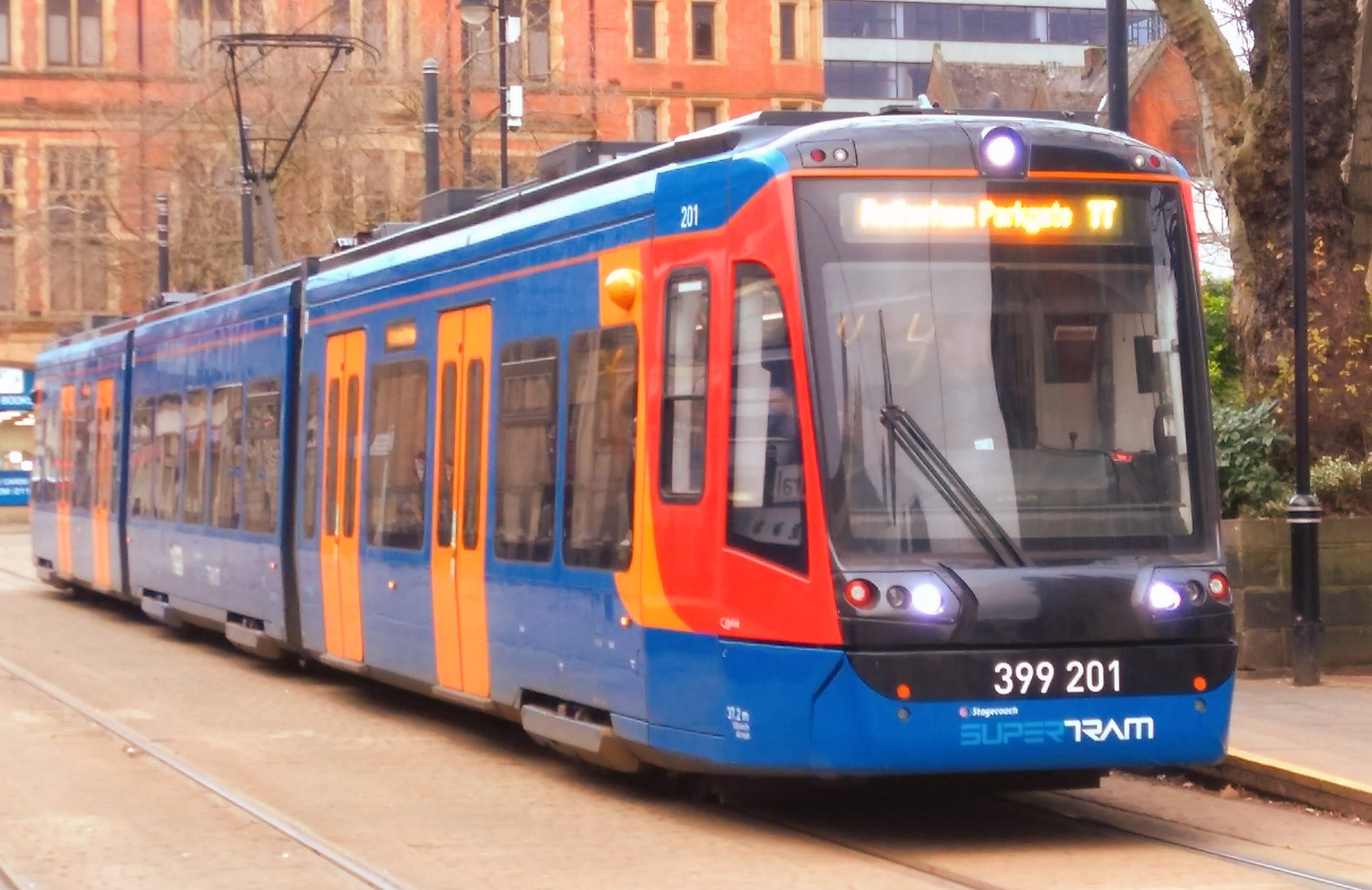 Sheffield Supertram Class 399 unit 399201 at Cathedral tram stop in Sheffield